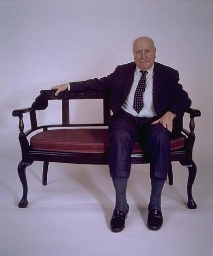 Polaroid portrait of the french philosopher J.F. Rével